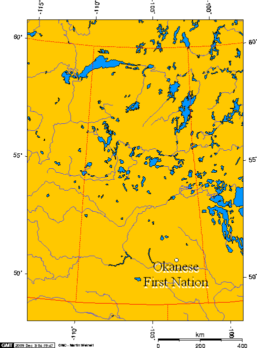 Location of the Okanese First Nation, in Saskatchewan